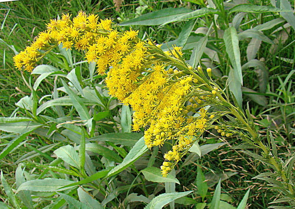 A Goldenrod known as Vara de Oro in Chile. In context at